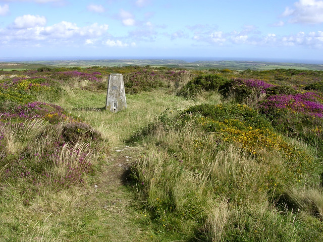 Trig point within Bartine Castle, Bartinney Downs. The castle is in fact an iron age inclosure, whose circular earthen bank still remains on top of this broad hill. Much of the hill is covered with gorse and heather, with the remains of prehistoric settlement below.